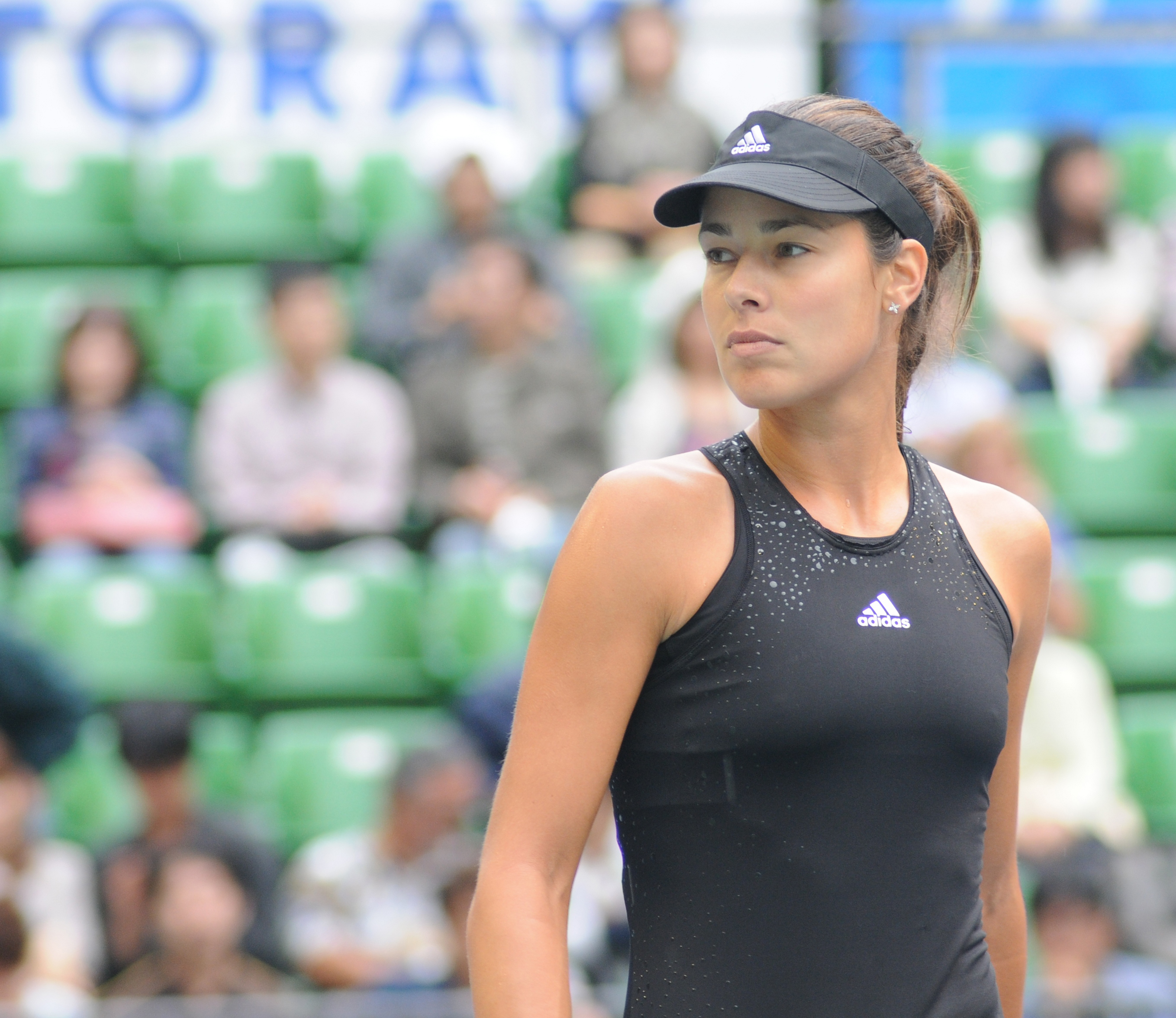 Ana Ivanović at the 2014 Toray Pan Pacific Open